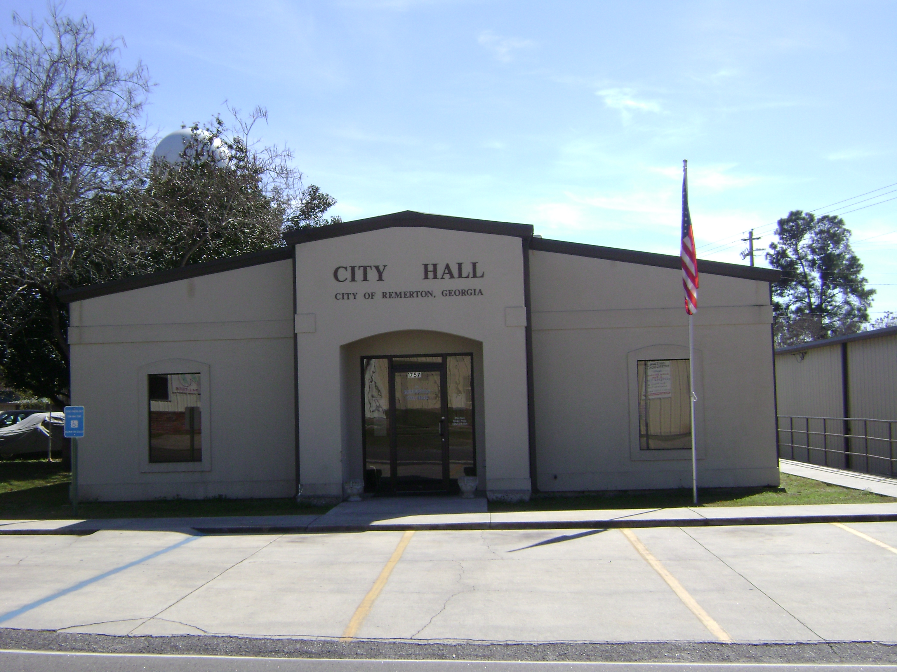 Remerton City Hall — 1757 Poplar Street, Remerton, Lowndes County, southern Georgia.